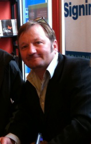 Photo of Mick Manning taken at a signing session at Edinburgh Book festival